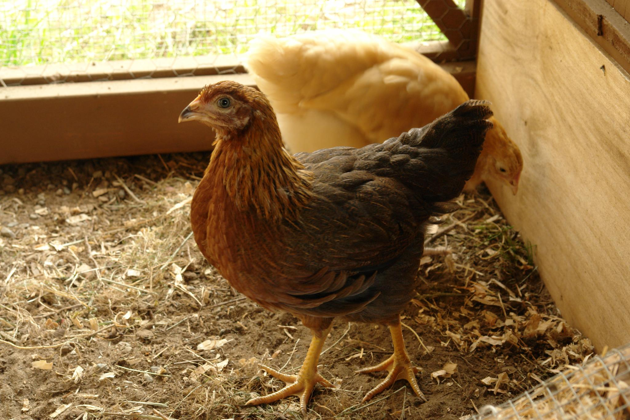 A Welsummer pullet, about 7 weeks old. A Buff Orpington is in the background.